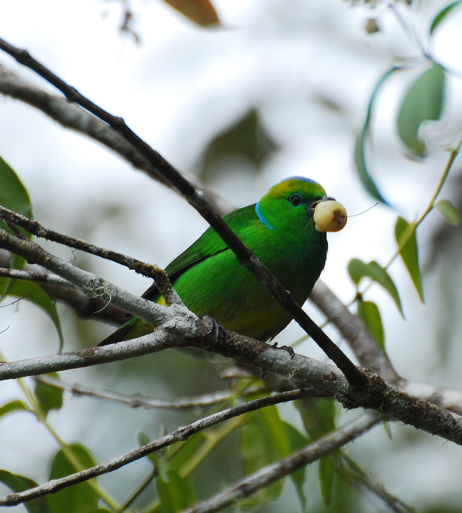 Golden-browed Chlorophonia at the Mirador de Quetzals, Costa Rica, 080226. Chlorophonia callophrys.